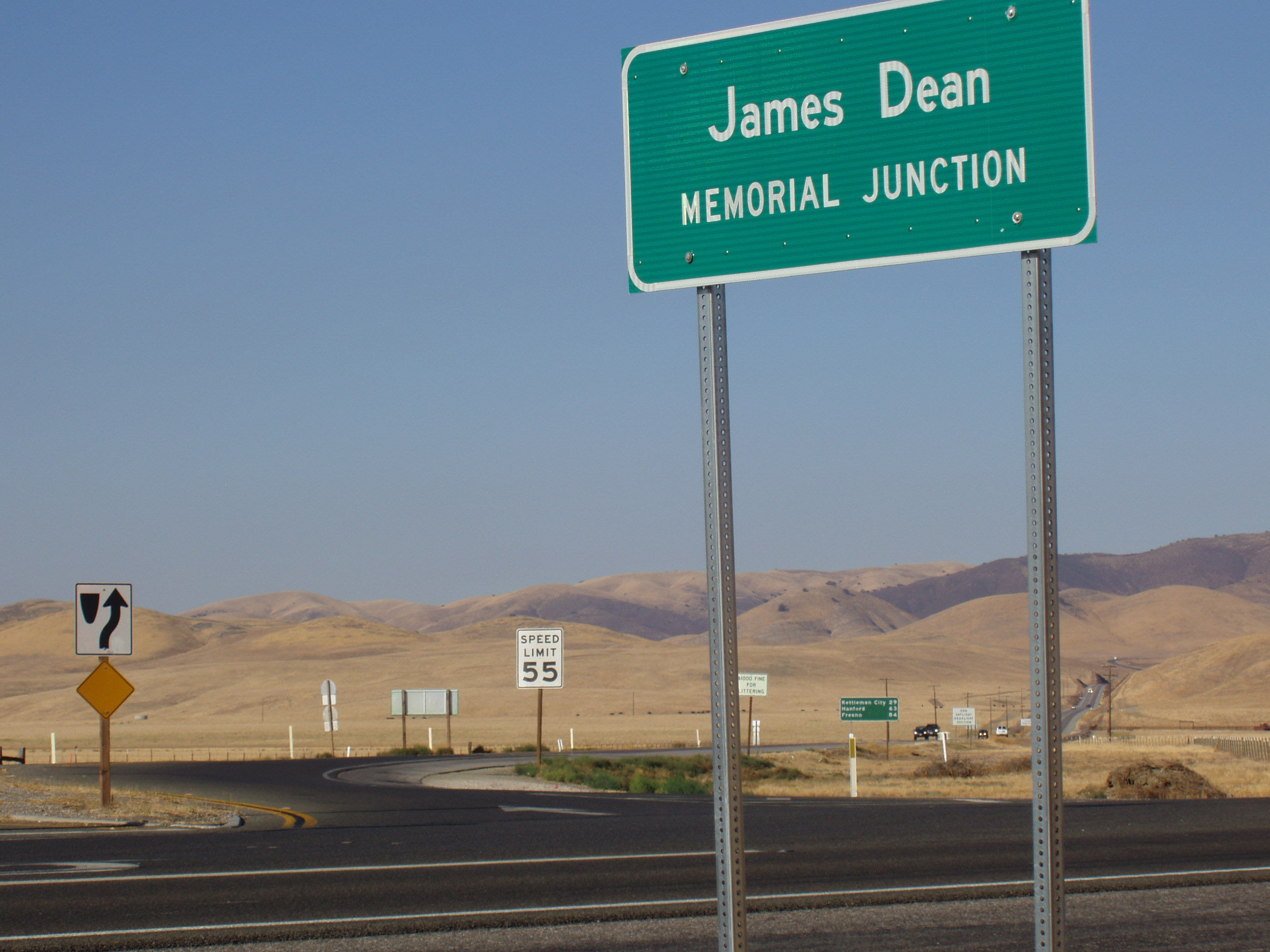 "James Dean Memorial Junction", the intersection of California State Routes 46 and 41.